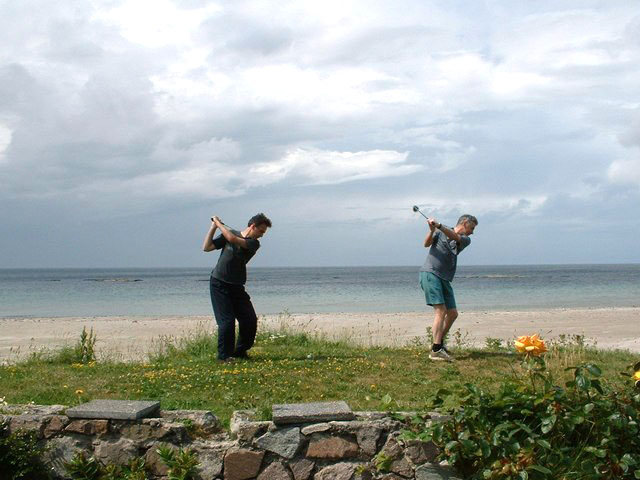 Bashing balls into the ocean outside the Argyll Hotel A small crowd gathered.